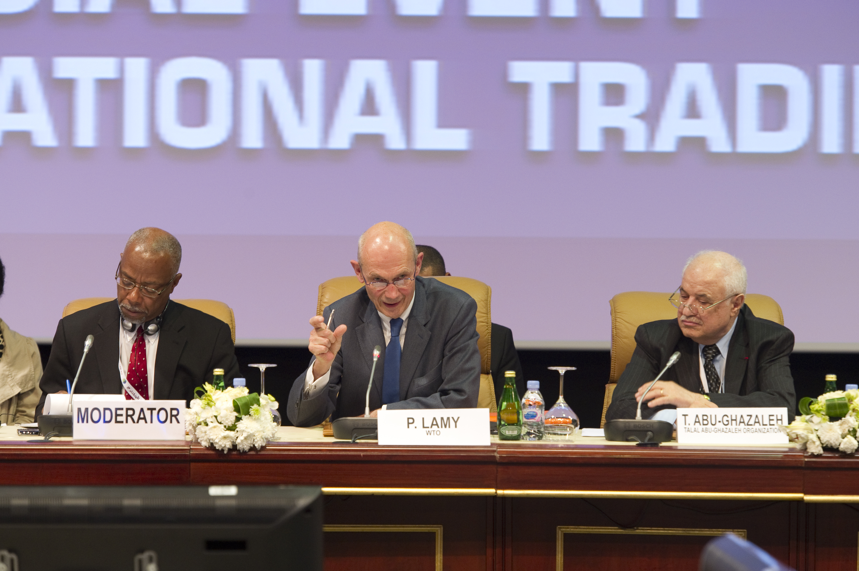 H.E. Ambassador Ransford Smith, Deputy Secretary-General, Commowealth Secretariat, Mr. Pascal Lamy Director-General World Trade Organization and H.E. Dr. Talal Abu-Ghazaleh, Senator (Jordan) and Chairman and Founder of Talal Abu-Ghazaleh Organization